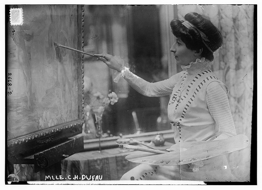 Bain News Service,, publisher. Clémentine Hélène Dufau [no date recorded on caption card] 1 negative : glass ; 5 x 7 in. or smaller. Notes: Title from unverified data provided by the Bain News Service on the negatives or caption cards. Forms part of: George Grantham Bain Collection (Library of Congress). Format: Glass negatives. Repository: Library of Congress, Prints and Photographs Division, Washington, D.C. 20540 USA, General information about the Bain Collection is available at Persistent URL: Call Number: LC-B2- 2668-2